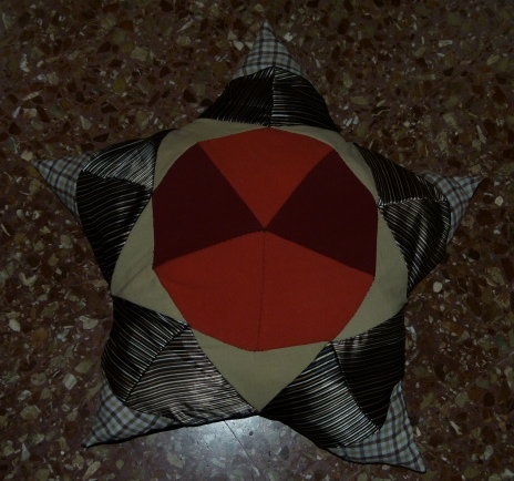 Cushion make with the Penrose kite and dart tiling.